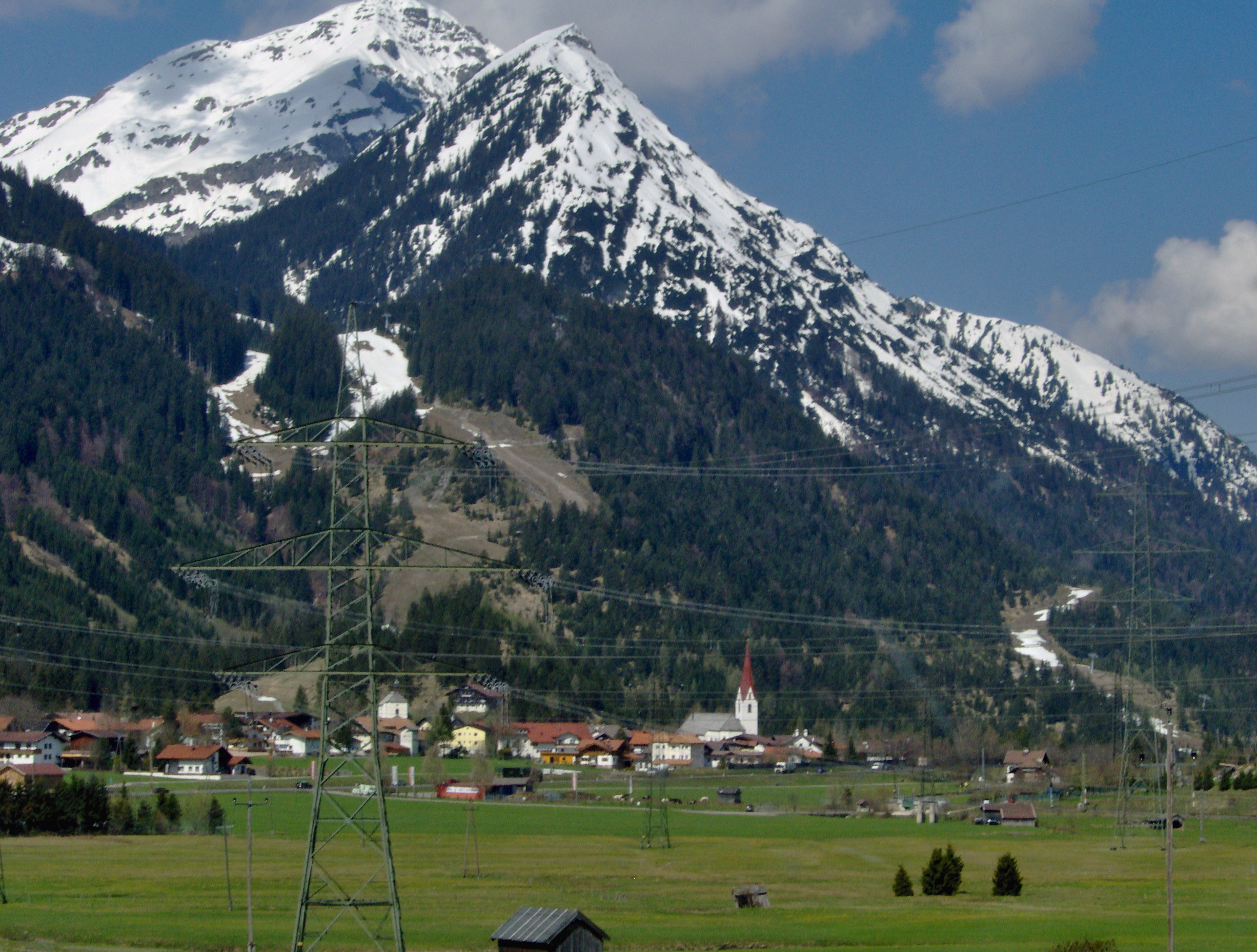 The village of Bichlbach, Tyrol, Austria, seen from the Fernpassstraße (B179)